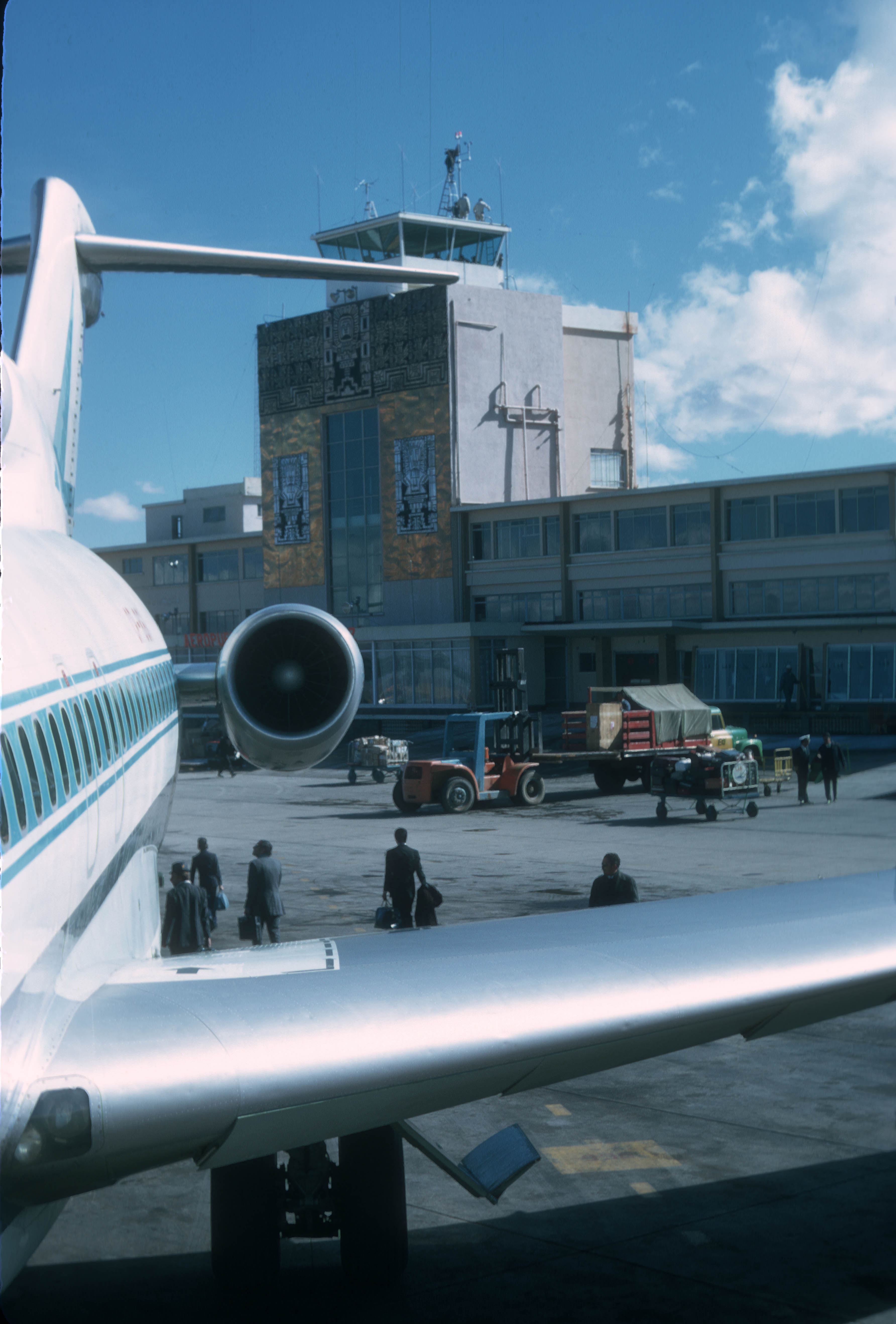 AL ALTO IS THE HIGHEST COMMERCIAL AIRPORT IN THE WORLD 13,3125 FEET